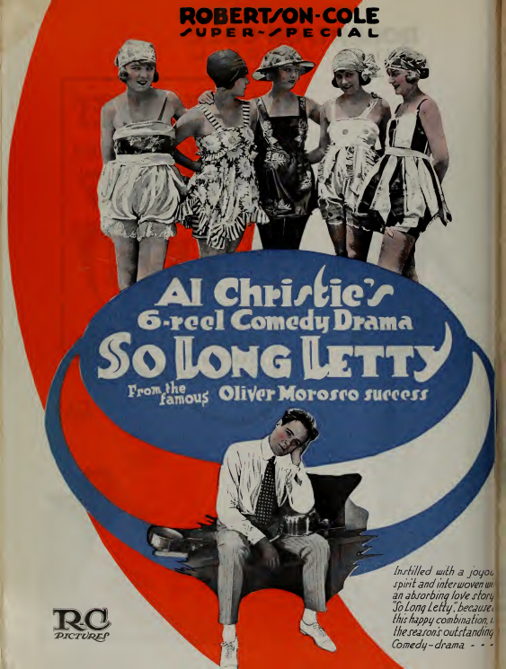 Advertisement for the American comedy film So Long Letty (1920), directed by Al Christie.